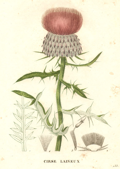 Cirsium eriophorum, Fig. from book